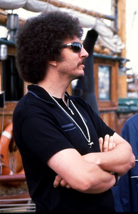 Primus band in Kopenhagen Primus at Langelinie, Copenhagen, Denmark in the summer of 1998. From left to right: Les Claypool, Bryan Mantia and Larry LaLonde. They played a concert the same day at Store Vega, Copenhagen.